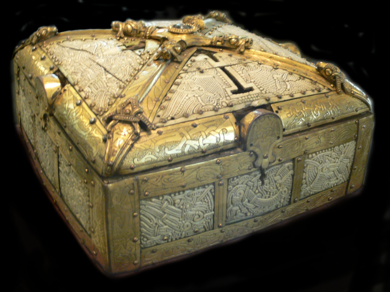 So-called Box of Saint Cunigunde; Scandinavia, c. 1000 AD; oakwood, mammoth ivory, gilded bronze; from the Bamberg Cathedral Treasury